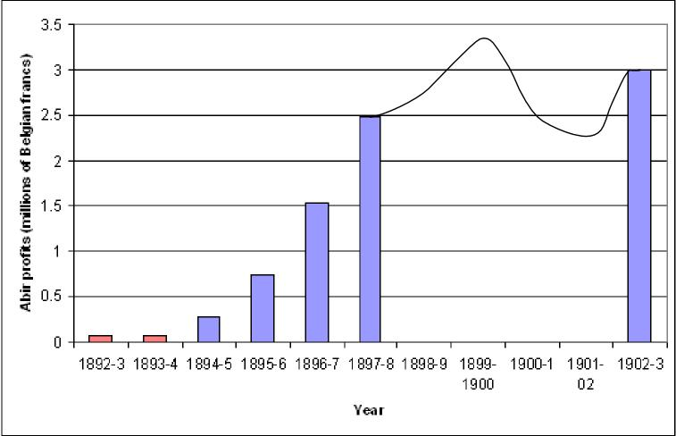 Graph of profits made by BAIR company from 1892 to 1903. The values are taken from page 131 of "The World Abir Made: The Margina-Lopori Basin, 1885-1903" by Robert Harms from Issue 12 of the Journal of African Economic History of 1983. The first two years are averages of a value given for a two year period. The black line represents a general trend described by Harms for years with no data.